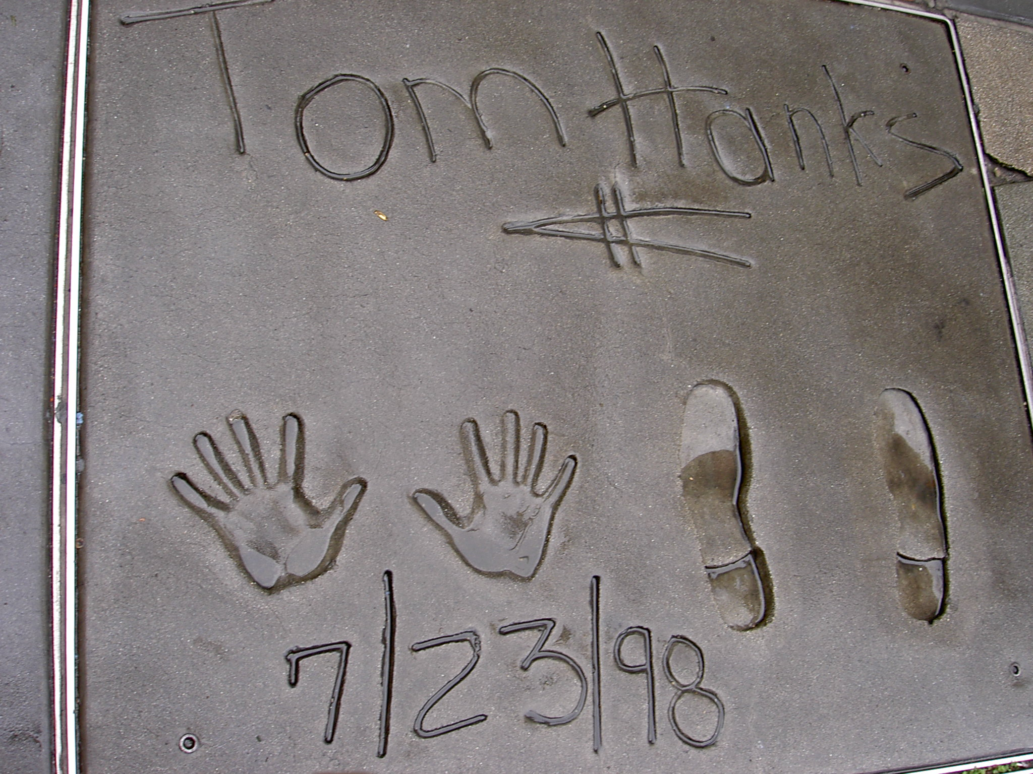 Tom hanks's footprint & handprint from Grauman's Chinese Theatre